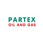 Partex Logo